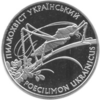 Coin of Ukraine